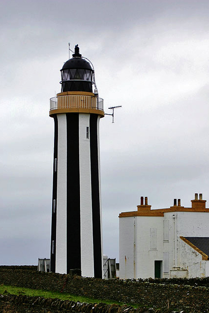 Start Point Lighthouse, Sanday, Orkney, taken on the 200th anniversary of the light's commencement of operations.